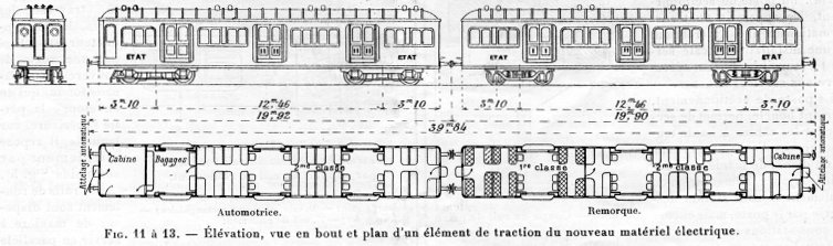 Drawing of electric multiple unit called "Standard" : Etat ZBEyfp future SNCF Z 23061 to 23205, then Z 1301 to 1340. Paris Saint-Lazare.